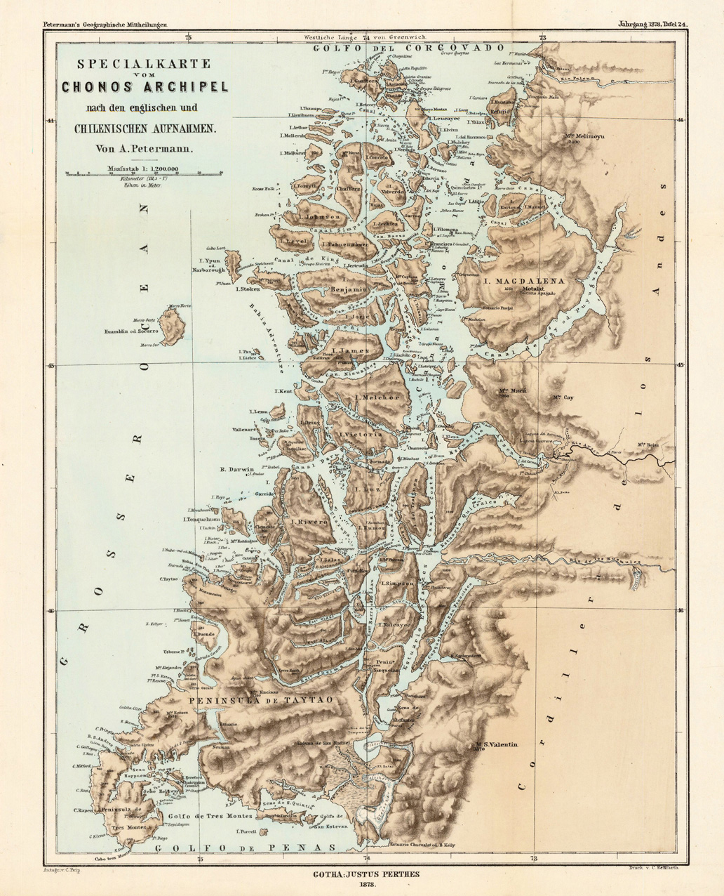 Lithograph, printed in colors when published. Detailled map, showing the Chonos Archipel from the gulf of Penas with the Peninsula de Taytao up to the gulf of Corcovado. Very detailled map with an enormous number of islands and peninsulas, most of them with place names. The map provides an overview of the results of the travel by Th. von Heugelin to Somalia. It is also ornated with a scene of birds and mammals, which were discovered by Th. Heugelin in Somalia.